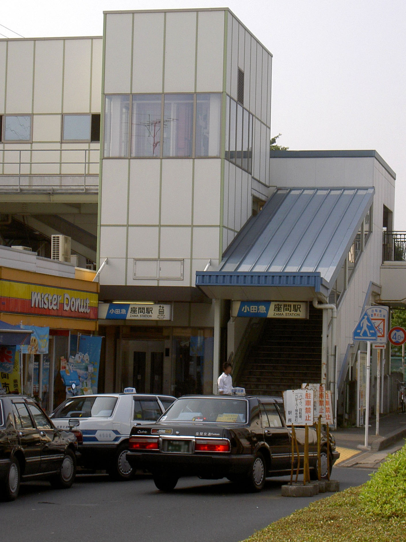 East entrance of Zama station, Odakyu Odawara line ja: 座間駅東口